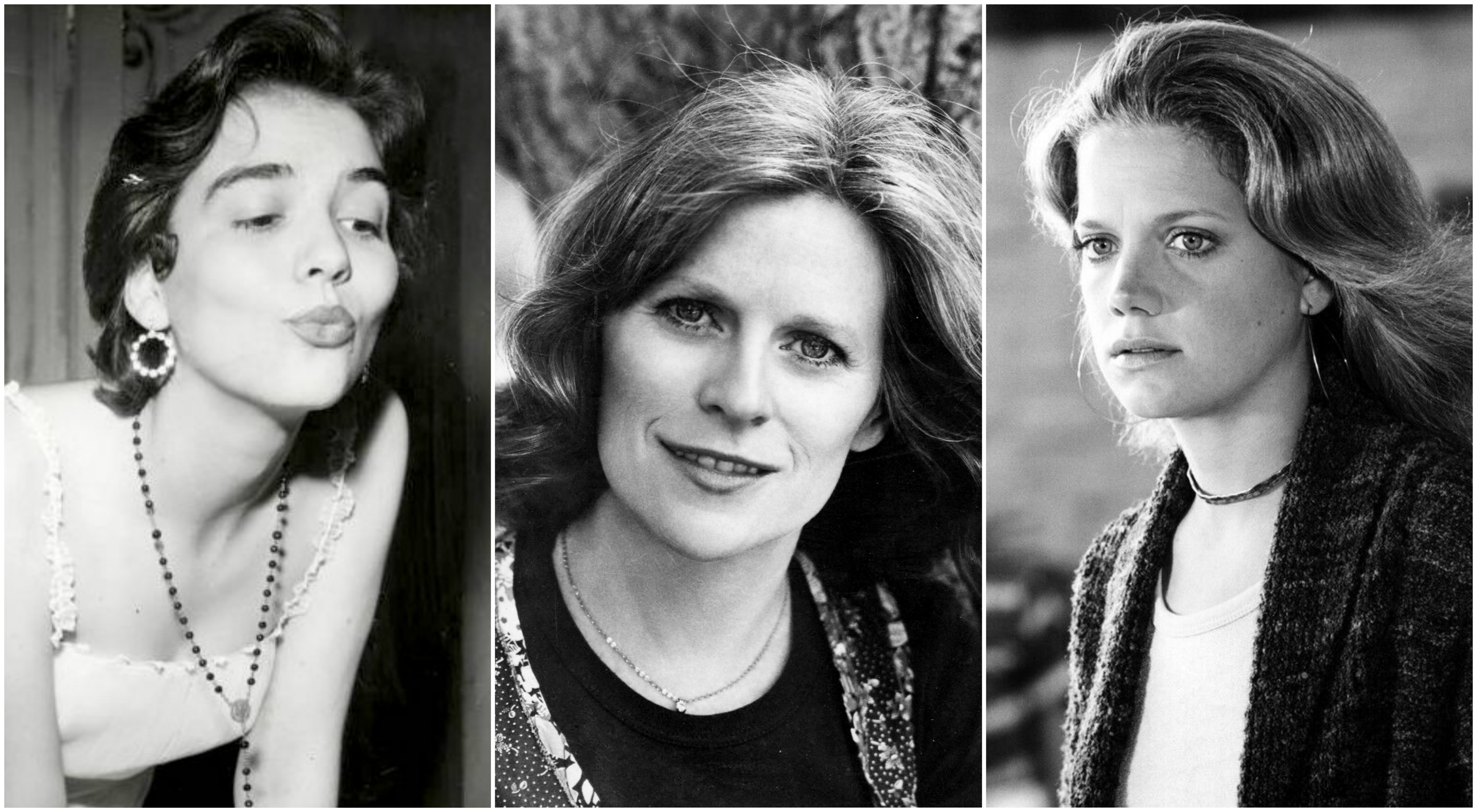 Zohra Lampert, Mariclare Costello, and Gretchen Corbett, the female actors of the film Let's Scare Jessica to Death